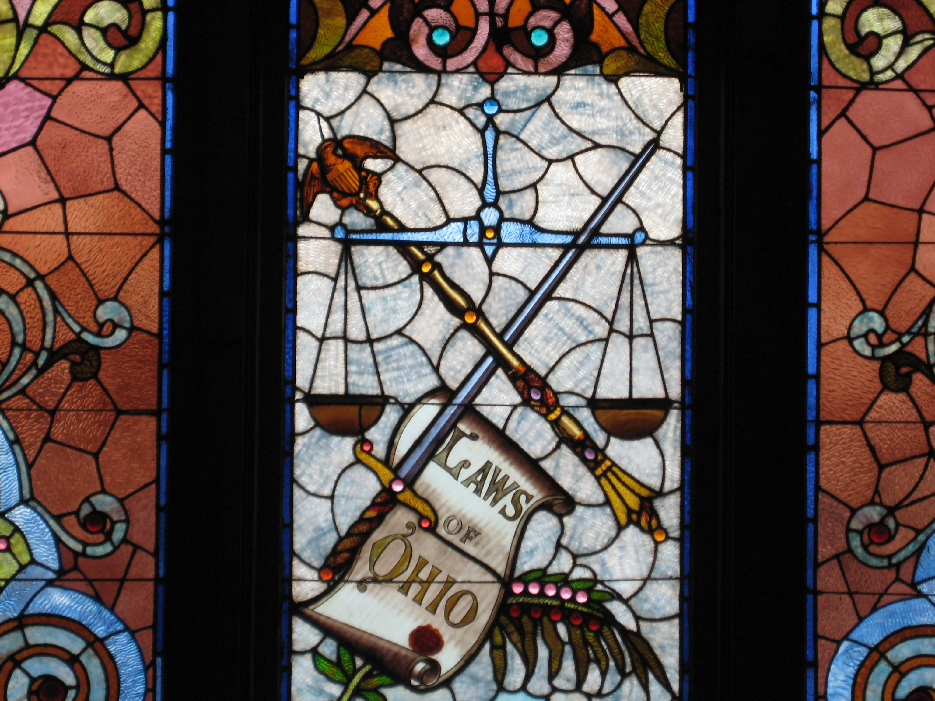 A view of a stained glass window in the Hancock County Courthouse